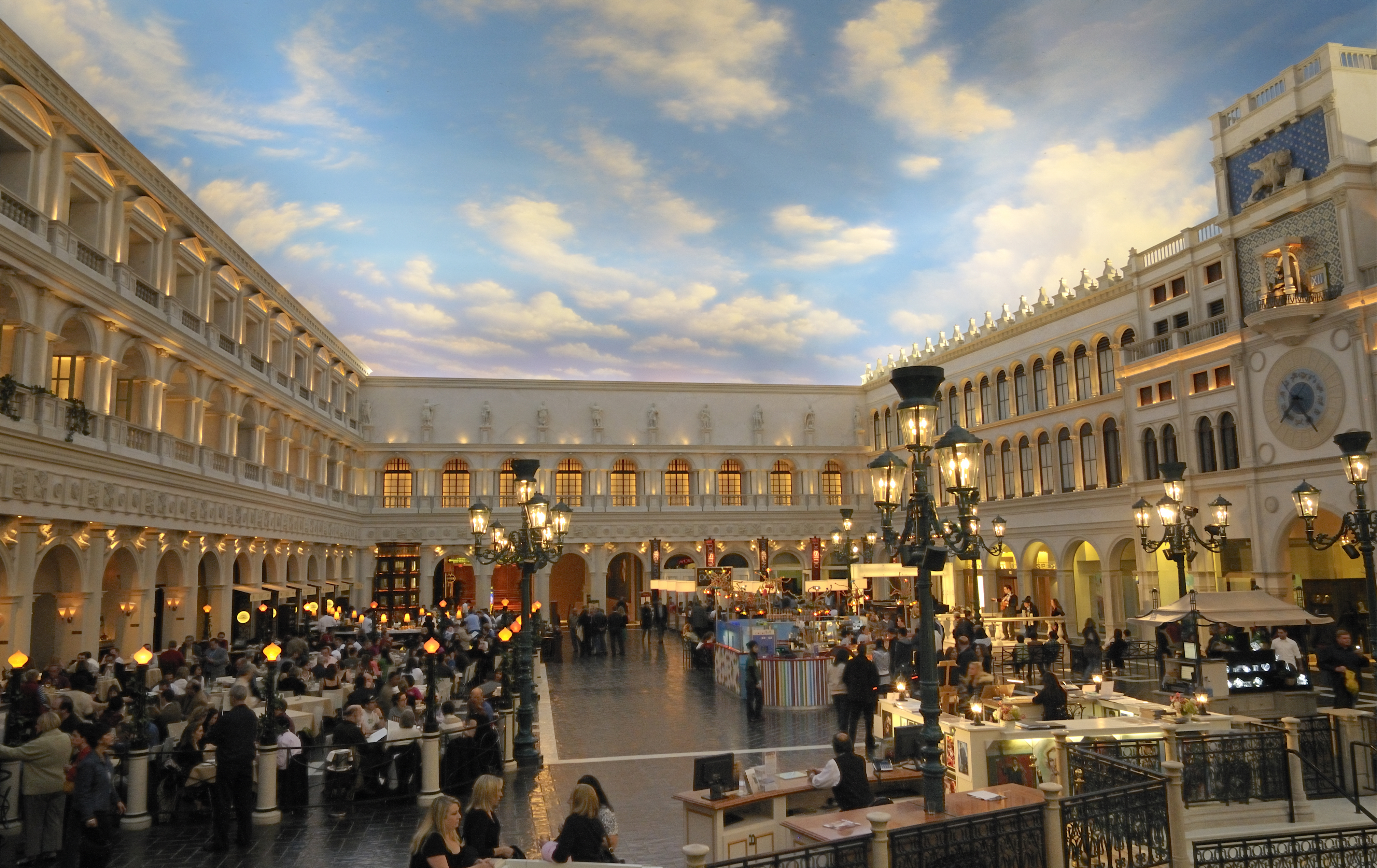 the famous fake Piazza Venicia :-) I wonder what the italian tourists think of it when they come here.